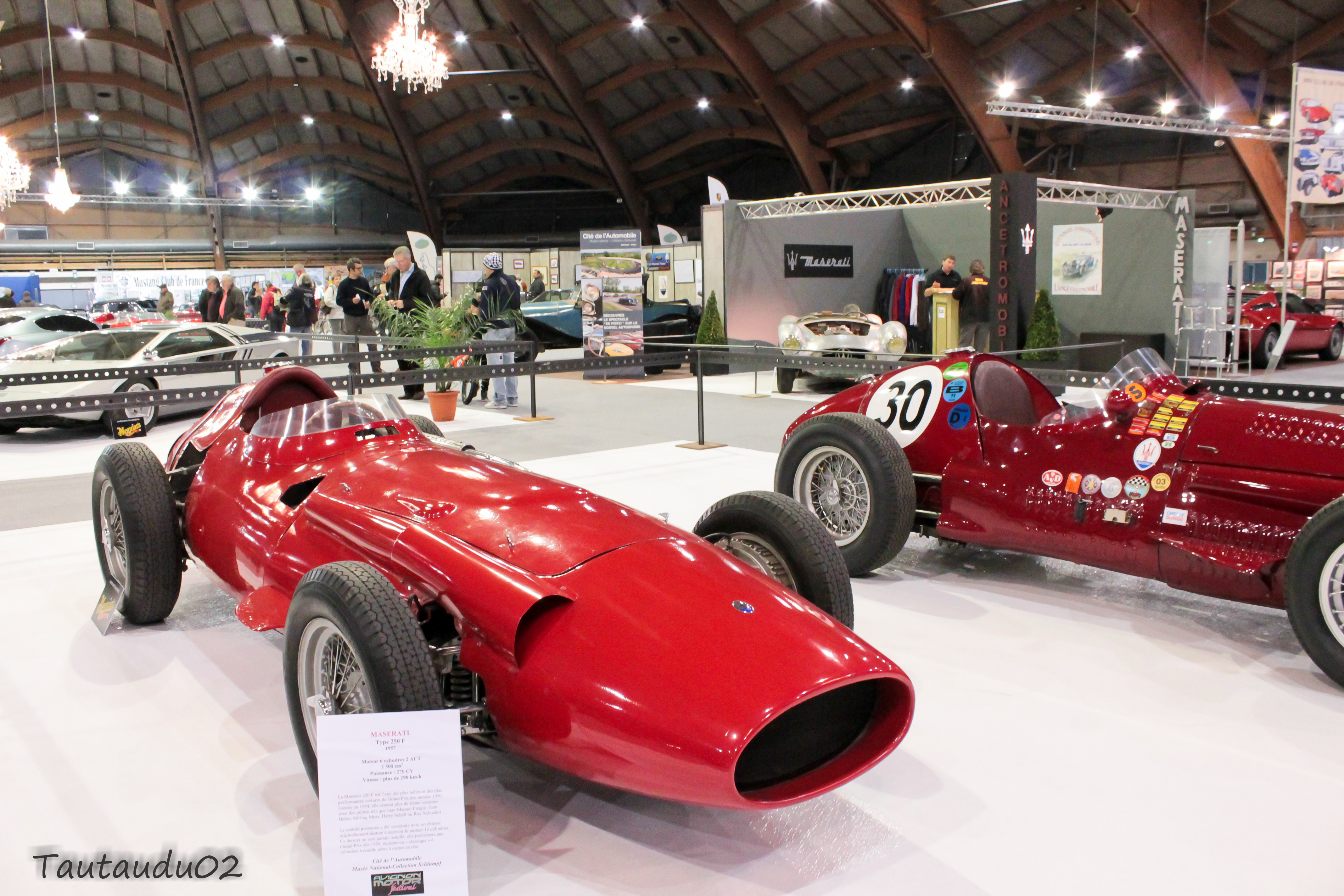 Maserati 250F at Avignon Motor Festival 2014